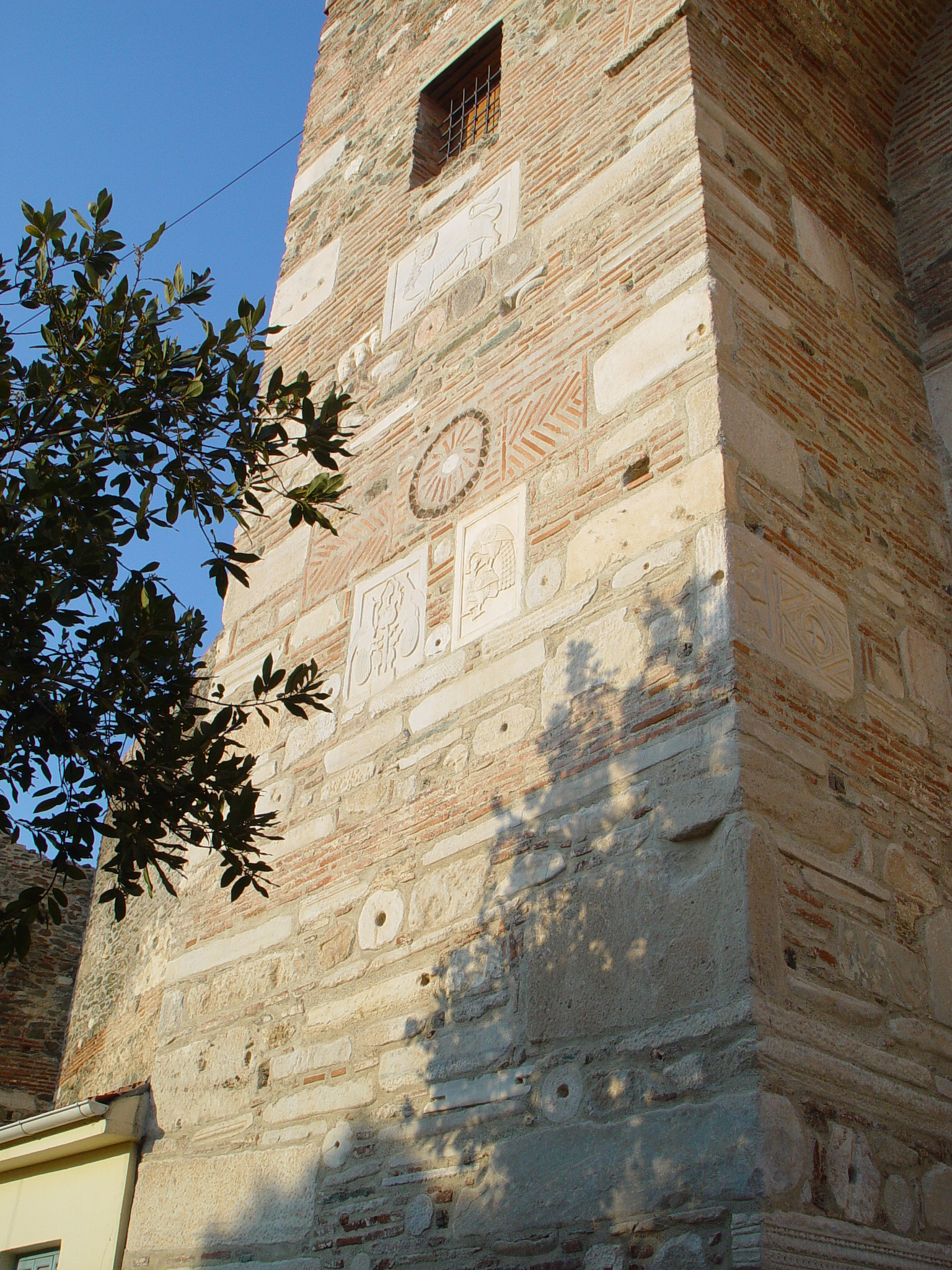 Tower of the Heptapyrgion fortress, an Ottoman reconstruction of a Byzantine fort on the Thessaloniki acropolis (1431). Detail of the masonry with spolia. Photograph taken by Marsyas 09:54, 28 February 2006 (UTC)